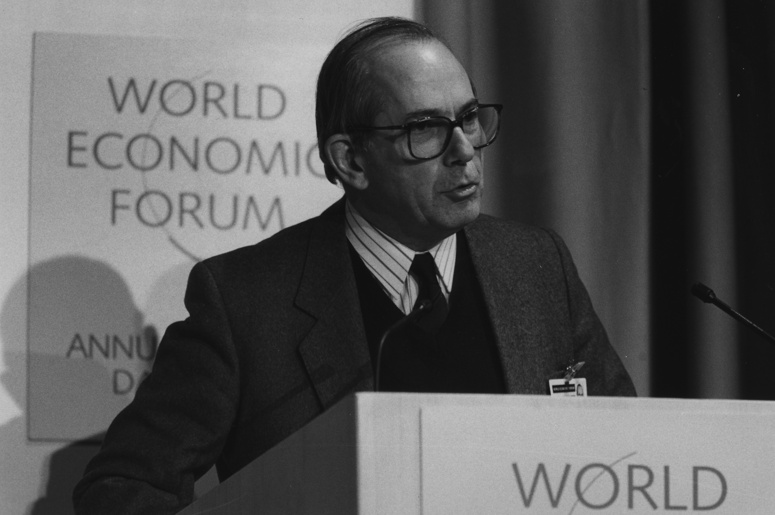 DAVOS/SWITZERLAND, JAN 1989 - Michel Camdessus, Managing Director of the International Monetary Fund, at the Annual Meeting of the World Economic Forum in Davos in 1989. Copyright World Economic Forum (